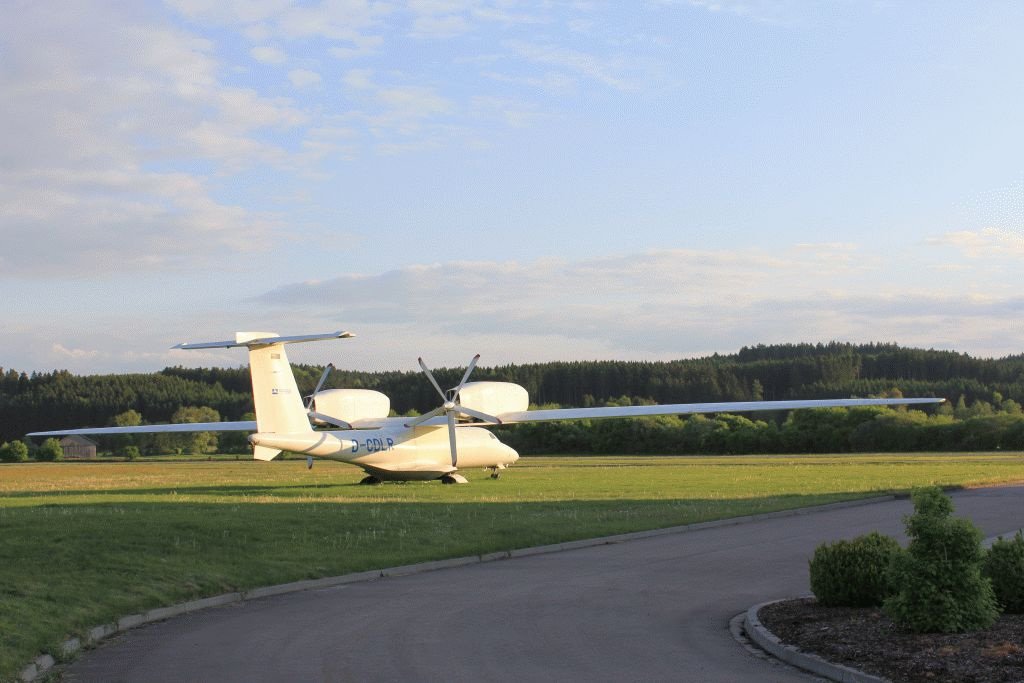 The experimental high altitude research aircraft Grob G 850 Strato 2C